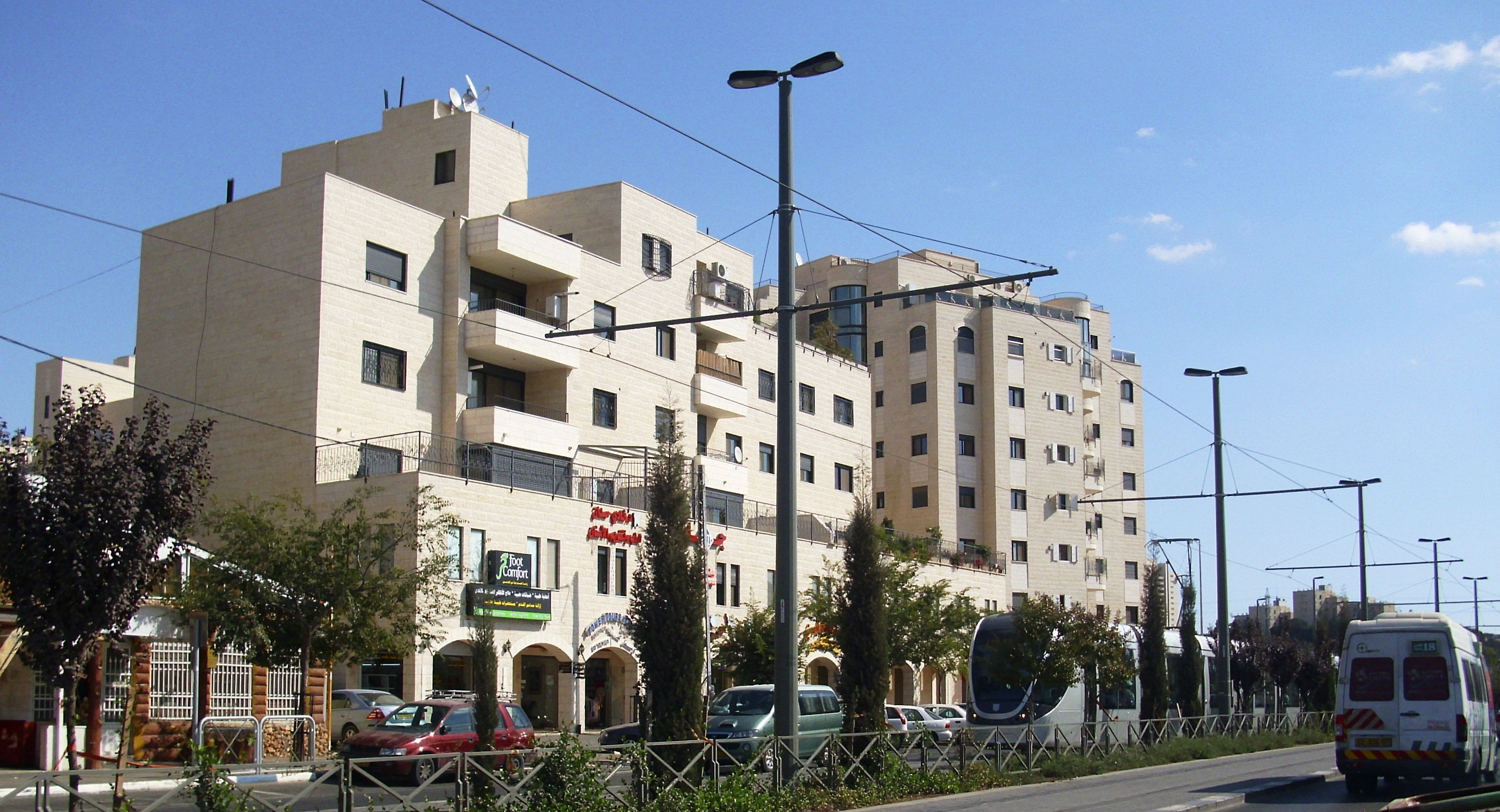 Shuafat South with Light Rail Train and Arab Bus